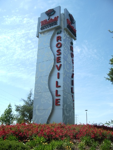 An ornate stele-style sign for the Westfield Galleria at Roseville